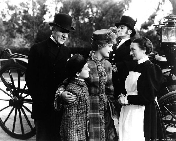 L. to R. : Henry Stephenson, Freddie Bartholomew, Dolores Costello & Una O'Connor in Little Lord Fauntleroy - cropped screenshot